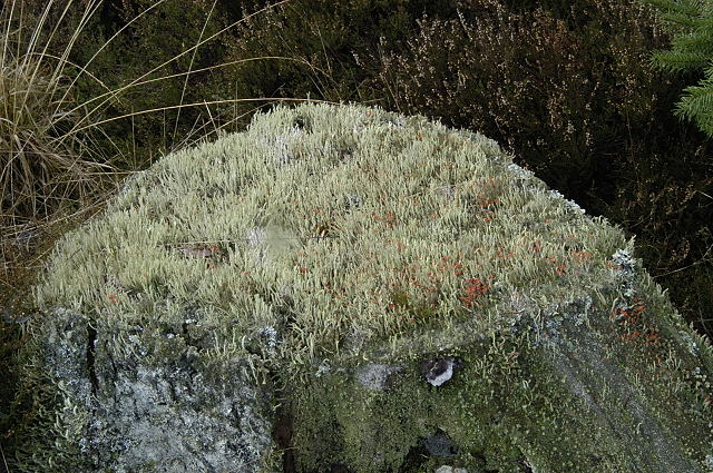 Picture taken in Commanster, Belgian High Ardennes . Species: Cladonia gracilis